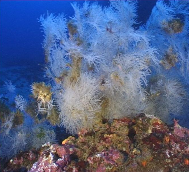 Antipathella subpinnata from the Strait of Messina.